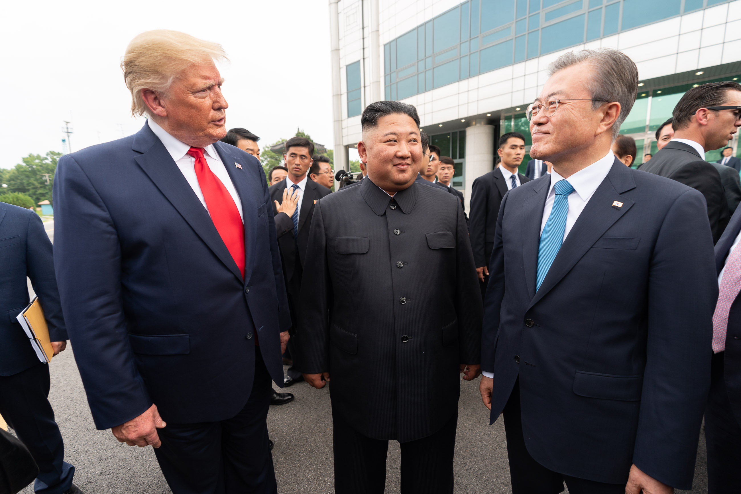 President Donald J. Trump, Chairman of the Workers’ Party of Korea Kim Jong Un, and Republic of South Korea President Moon Jae-in talk together Sunday, June 30, 2019, outside Freedom House at the Korean Demilitarized Zone. (Official White House Photo by Shealah Craighead)